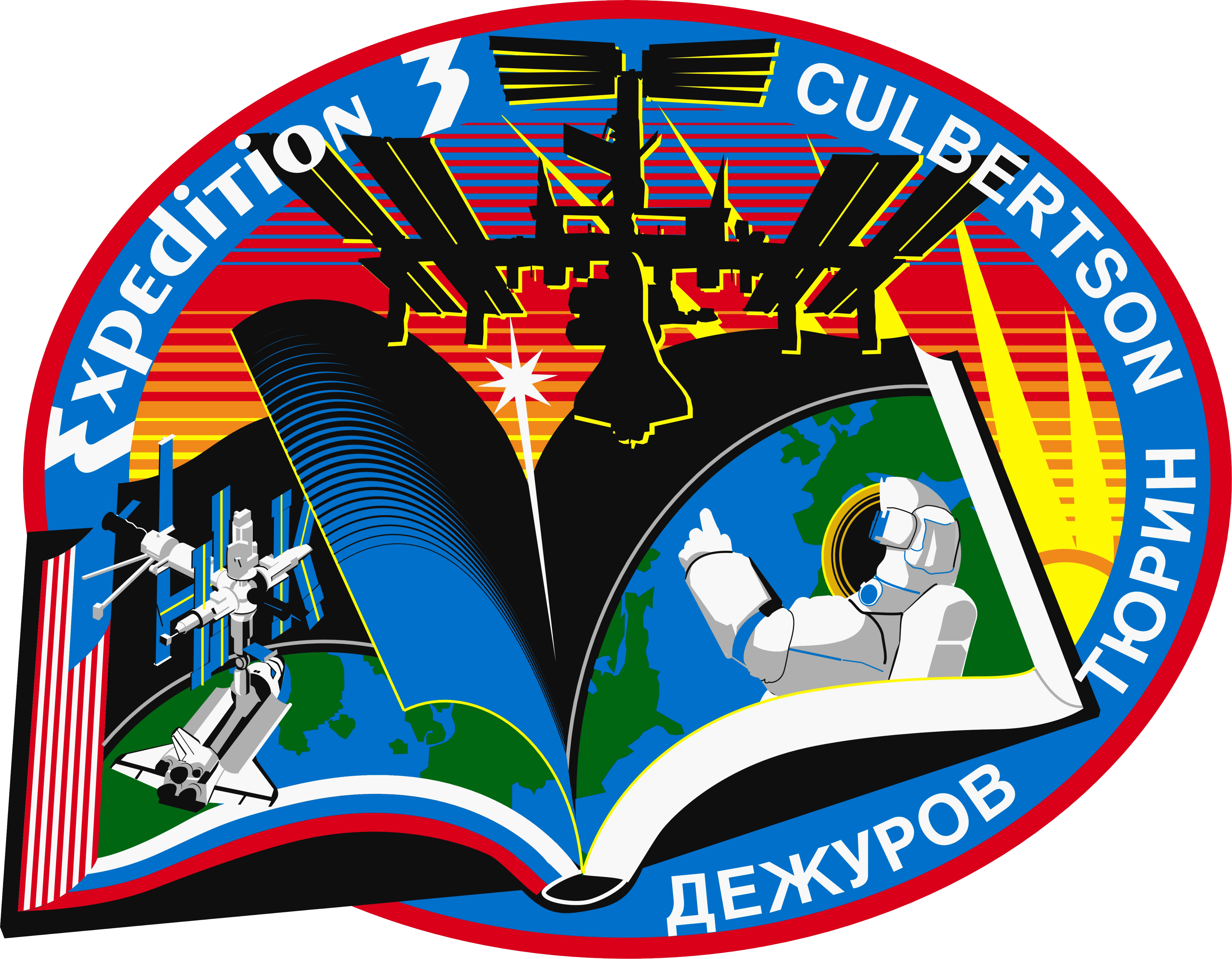 ISS Expedition 3 Mission patch It depicts the book of space history, turning from the chapter with the Russian space station Mir and the space shuttle to the next chapter, one that will be written on the blank pages of the future by space explorers working for the benefit of the entire world. Above the book is a layout of what the station will look like when completed, docked with the space shuttle. The Expedition Three crew members – astronaut Frank L. Culbertson, Jr., commander, and cosmonauts Vladimir N. Dezhurov and Mikhail Tyurin, flight engineers – had the following to say about the insignia for their scheduled mission aboard the International Space Station (ISS): “The book of space history turns from the chapter written onboard the Russian Mir Station and the U.S. Space Shuttle to the next new chapter, one that will be written on the blank pages of the future by space explorers working for the benefit of the entire world. The space walker signifies the human element of this endeavor. The star representing the members of the third expedition, and the entire multi-national Space Station building team, streaks into the dawning era of cooperative space exploration, represented by the image of the International Space Station as it nears completion.”